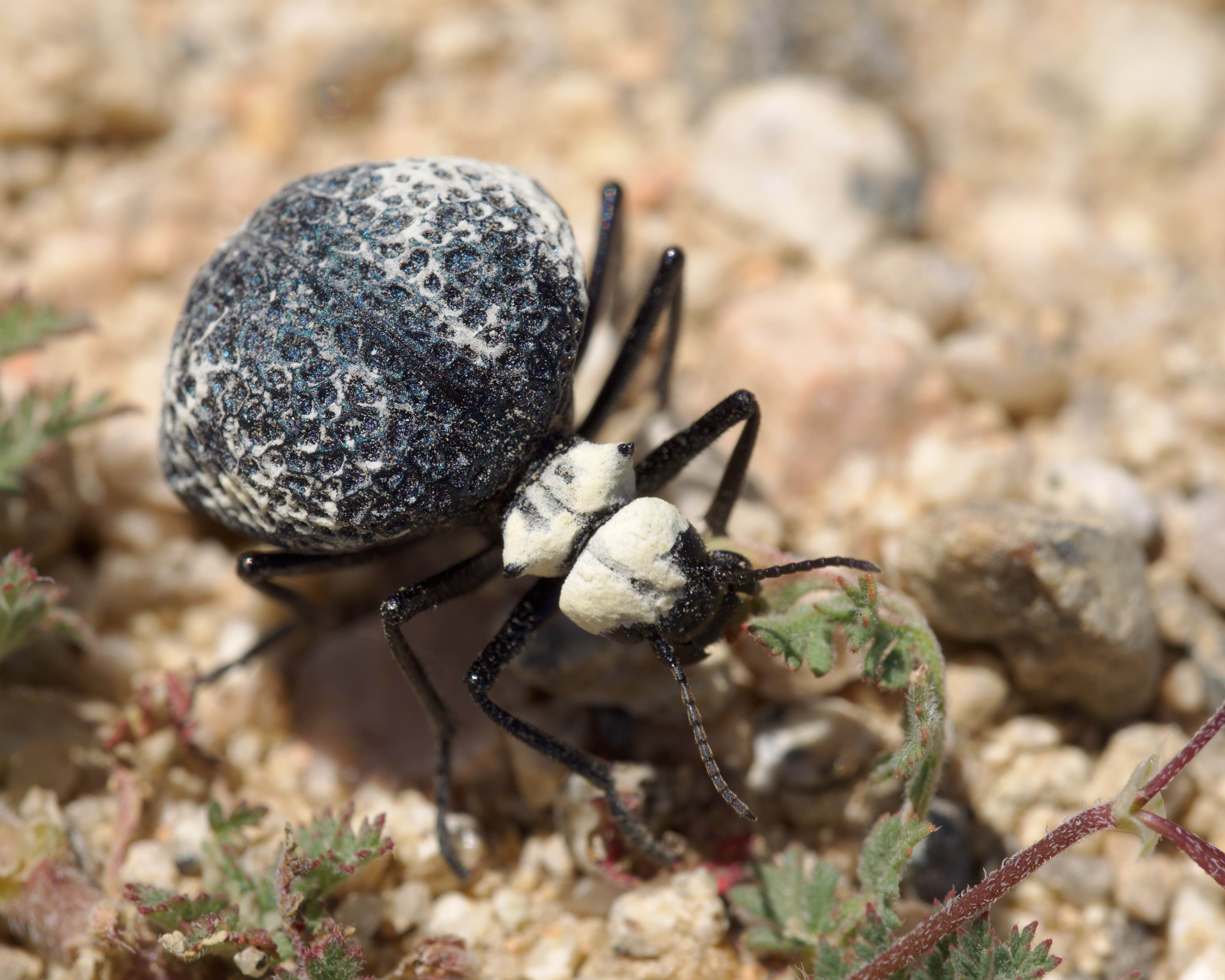 A Desert Spider Beetle Cysteodemus armatus, also known as "Inflated Beetle". This one was very fast moving in the midday heat, stopping only occasionally for a brief snack.